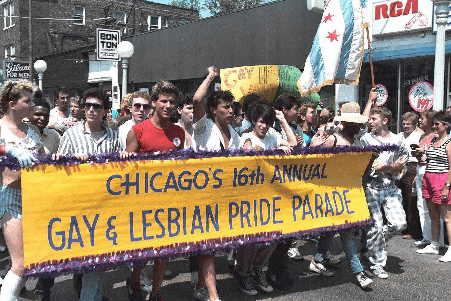 Chicago's 16th Annual Gay & Lesbian Pride Parade, June 1985